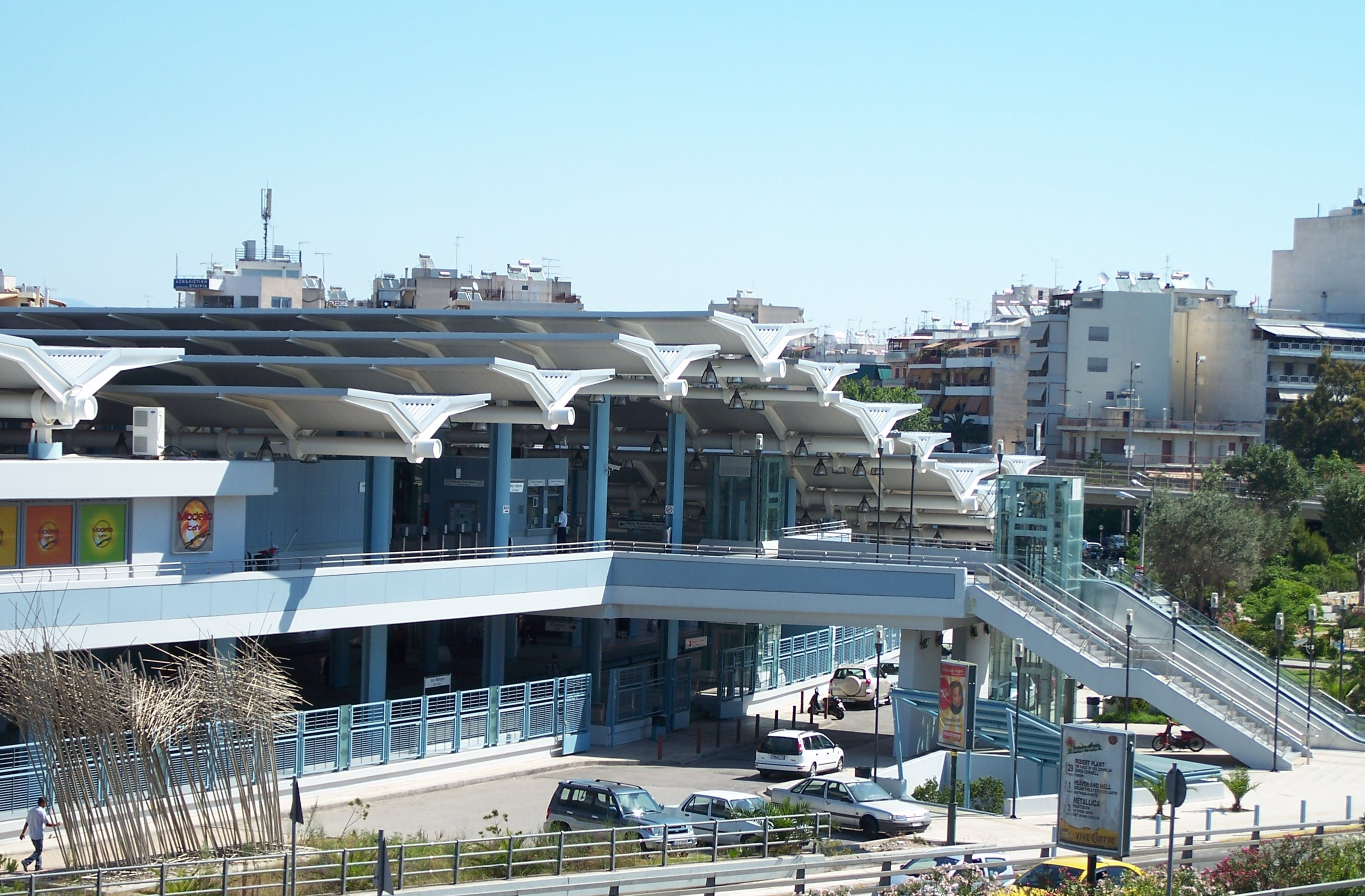 The Athens metro Faliro station, serving Karaiskaki stadium and Peace and Friendship stadium